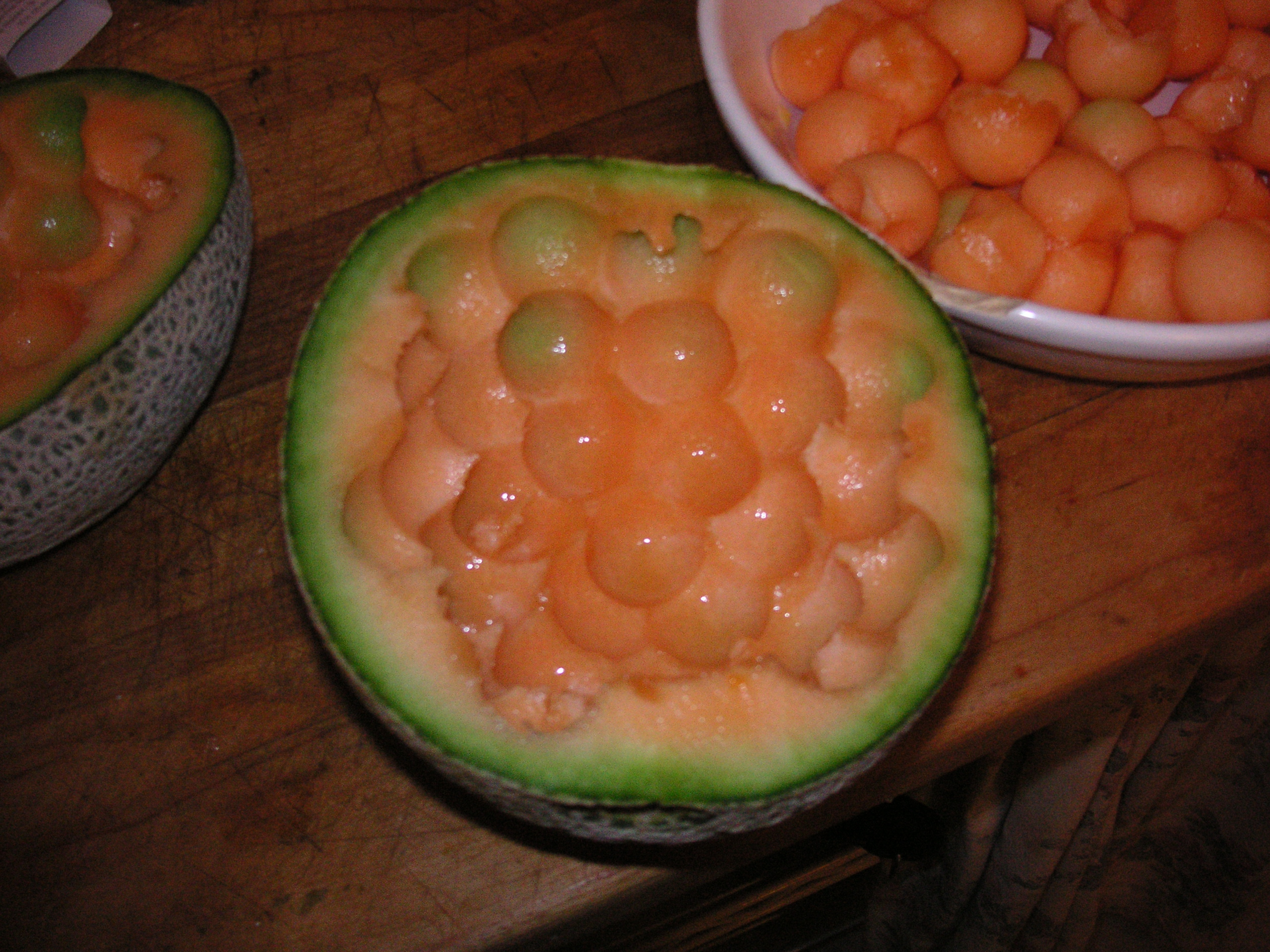 Melon with muscat